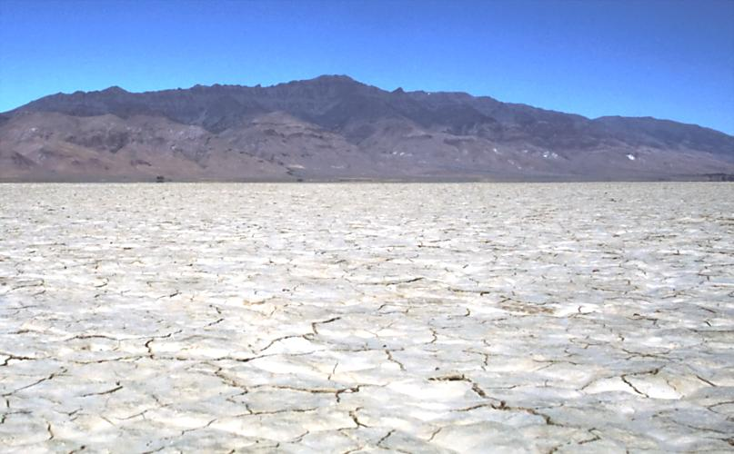 Steens Mountain in southeastern Oregon, looking northwest from the Alvord Desert.